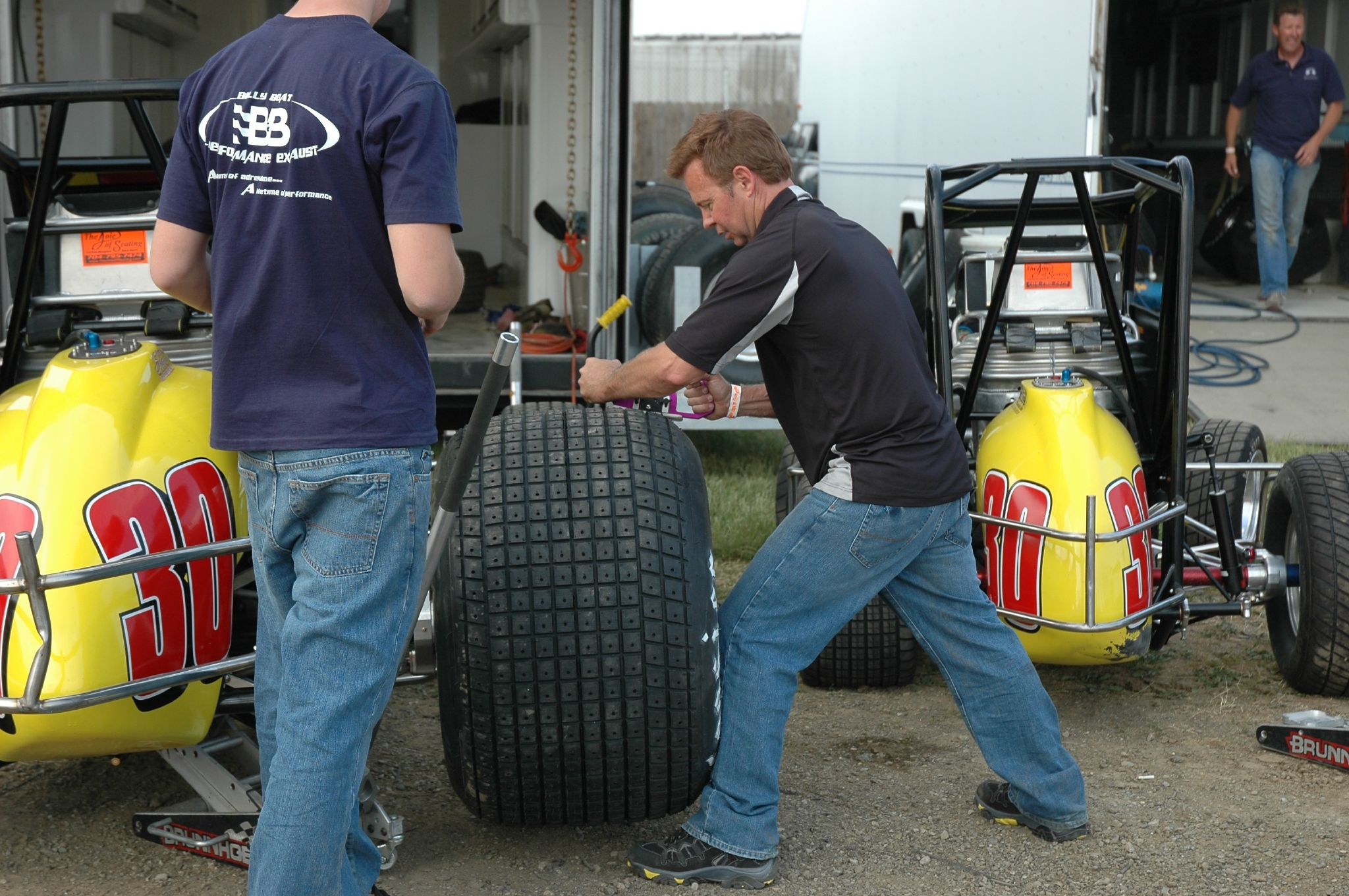 Former Indy Racing League driver Billy Boat preparing tires on his son Chad's Sprint car racing carDSC_0053